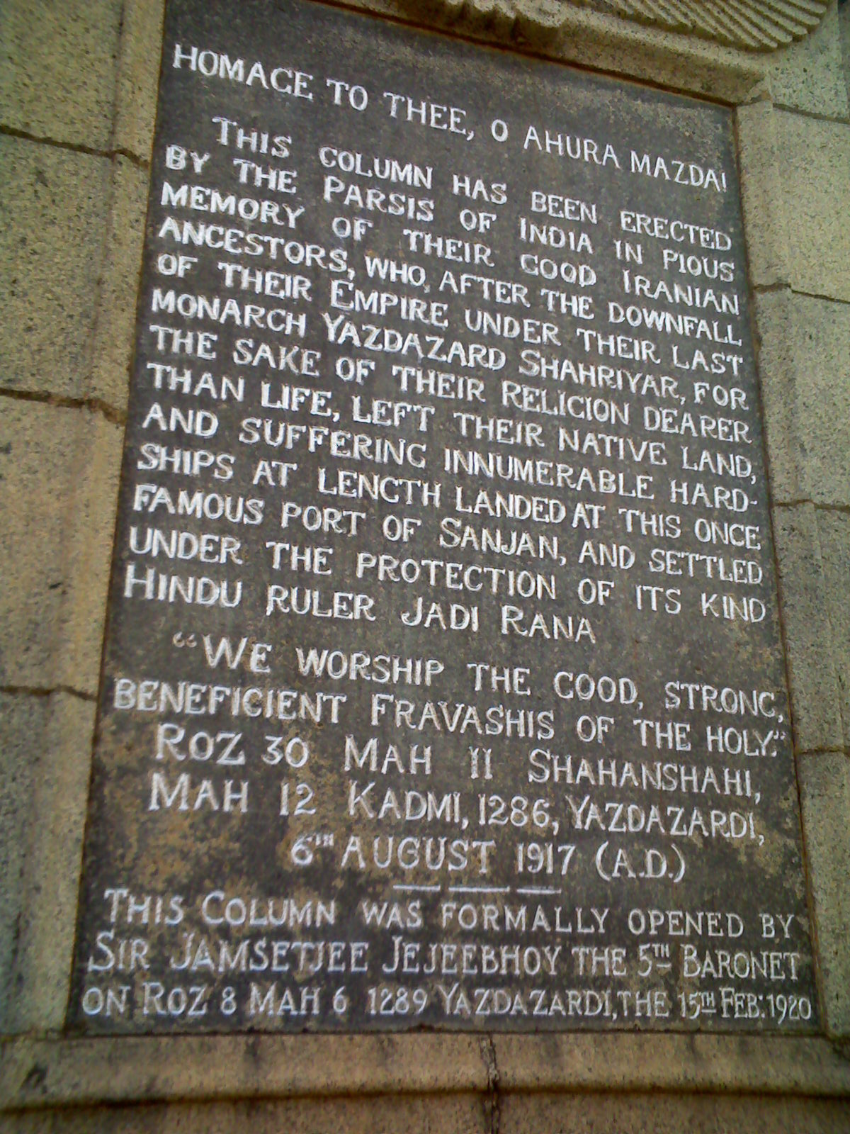 Photograph of Sanjan Stambh.